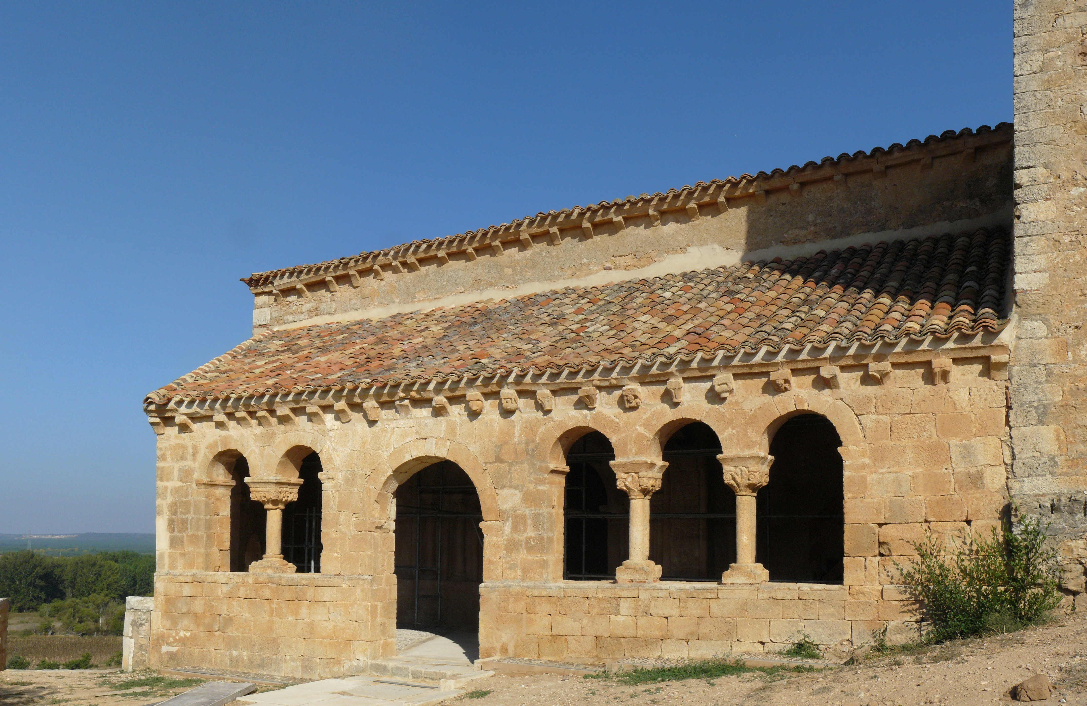 Detail of the entrance gallery, Romanesque church of San Martín, Aguilera, Soria (Spain).